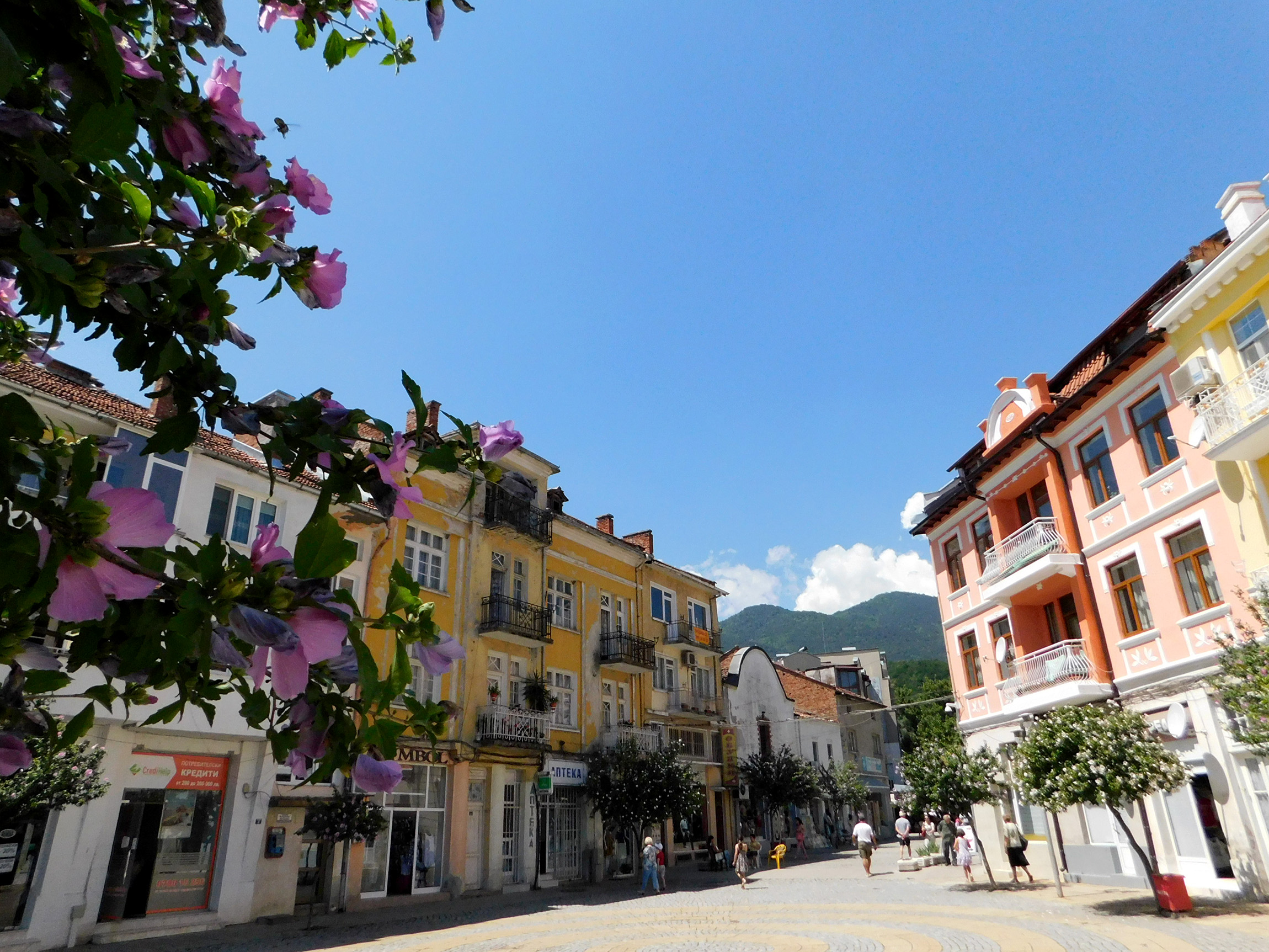 Gotse Delchev, Bulgaria